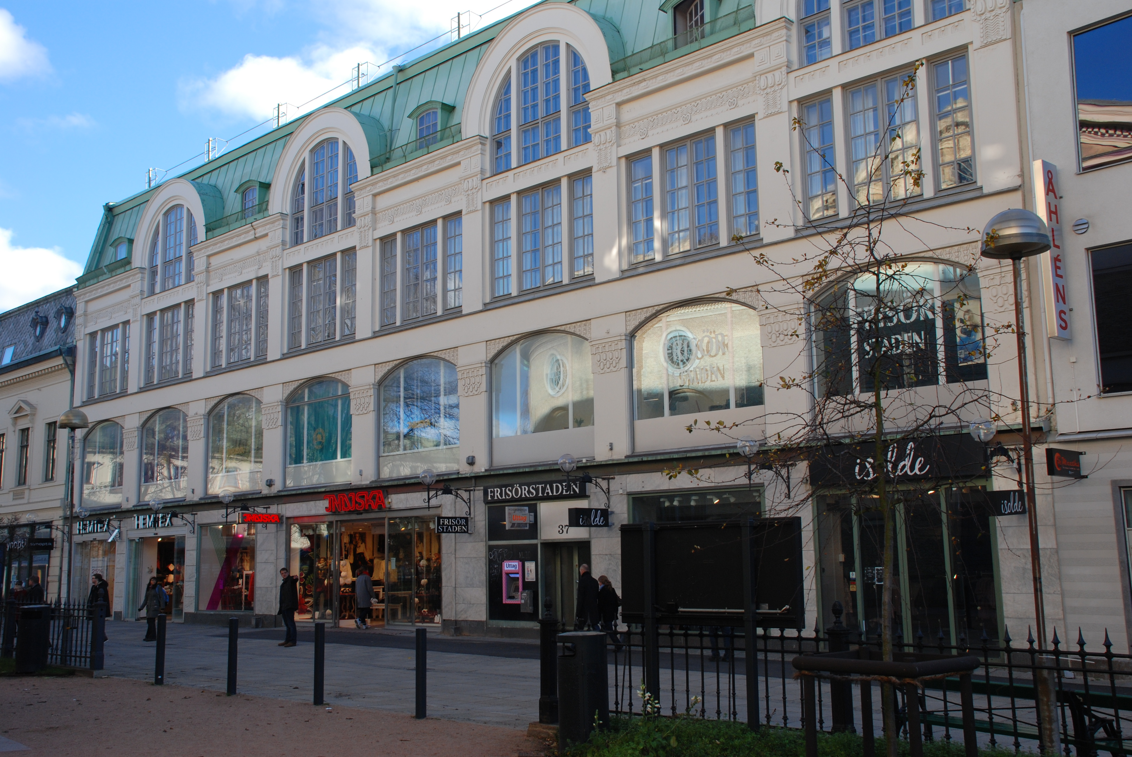 Kungsgatan 37-39 in Göteborg